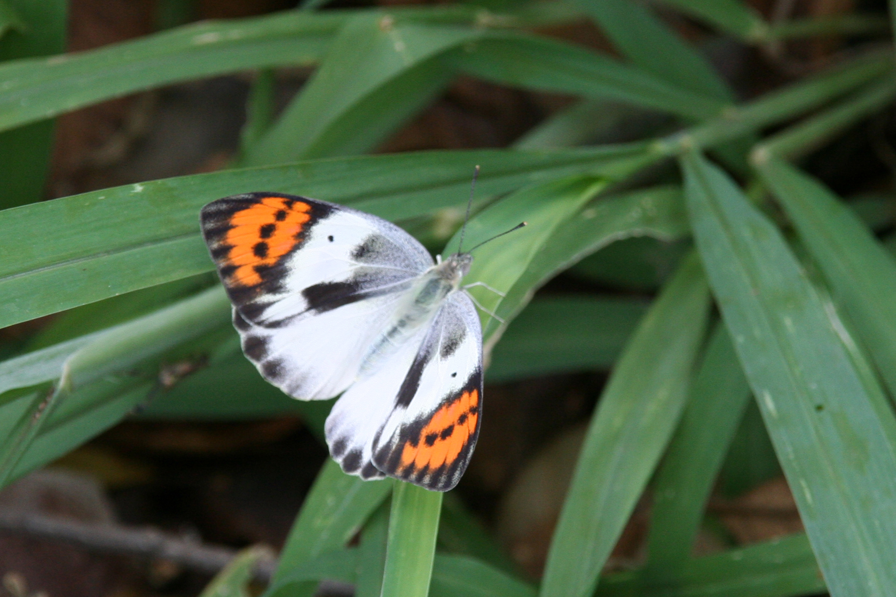 A female Purple tip